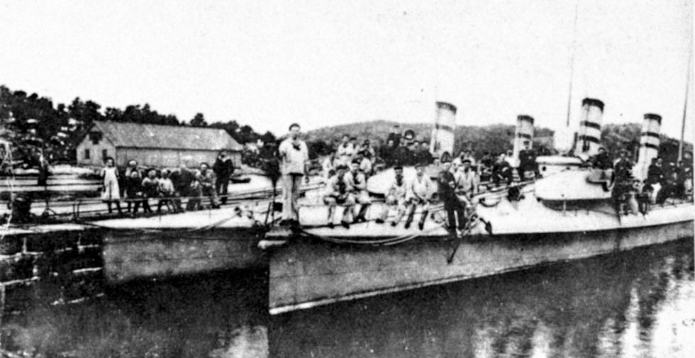 The Norwegian torpedo boats Brand and Storm at Marvika naval base